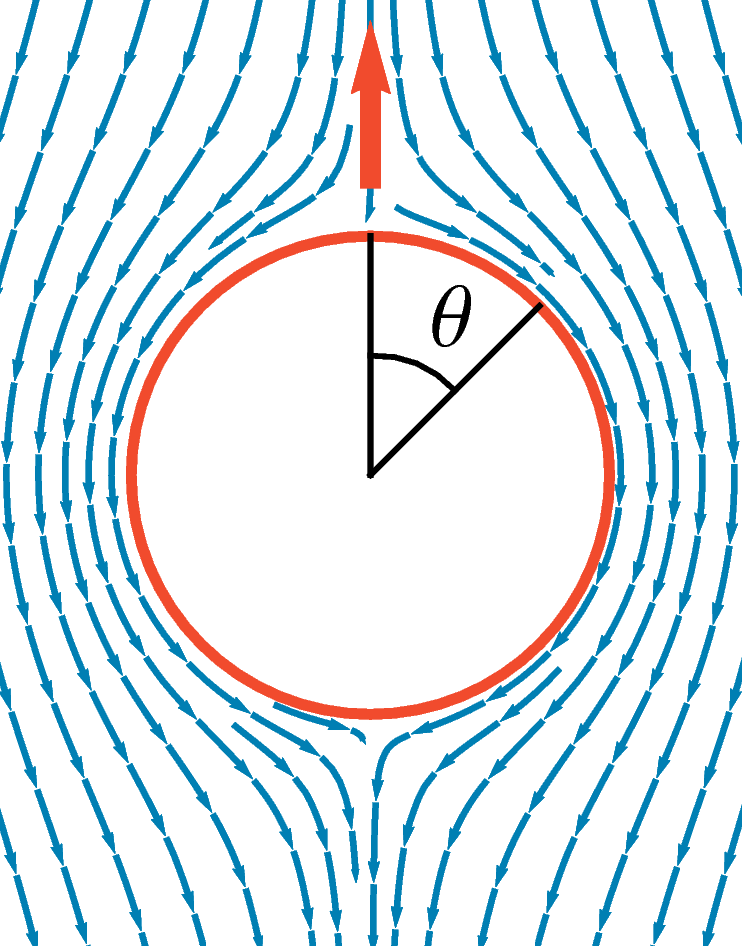 Velocity field